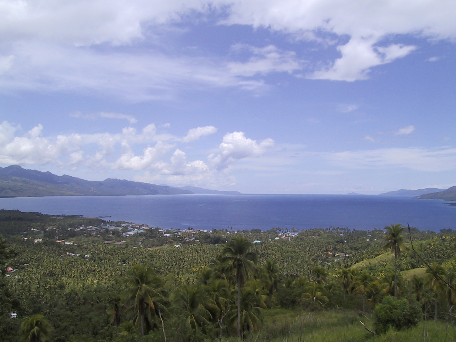 Sogod city and bay from the mountain